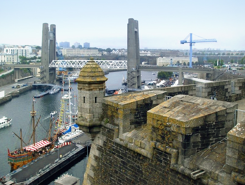 View of Brest, France from the castle